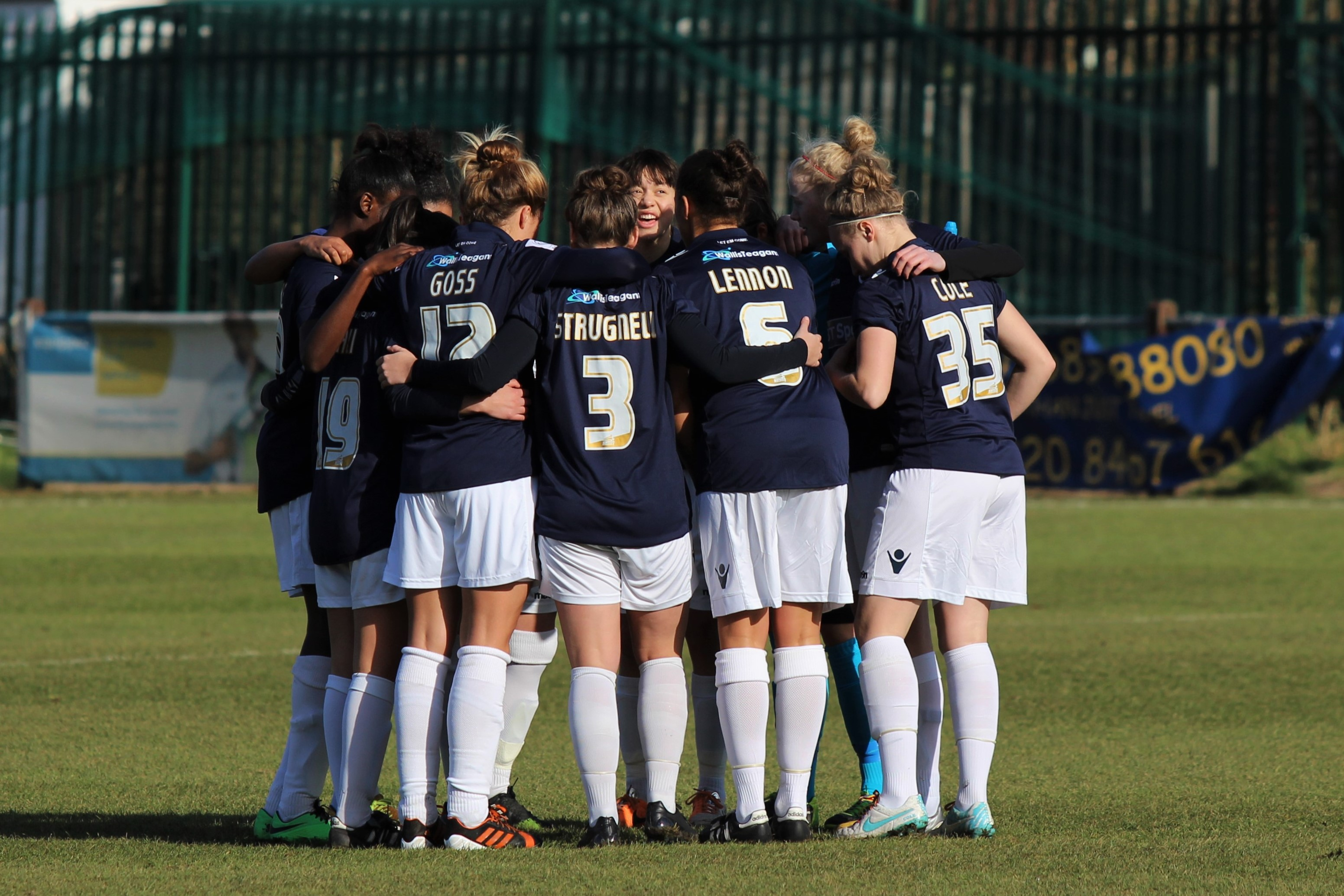 Millwall Lionesses huddle for a team talk before the FA Cup game against Lowestoft Town